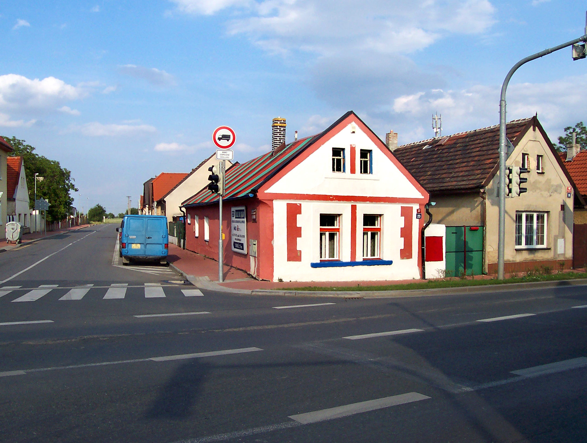 Intersection of Dolnoměcholupská street with Kutnohorská street in Dolní Měcholupy, Prague